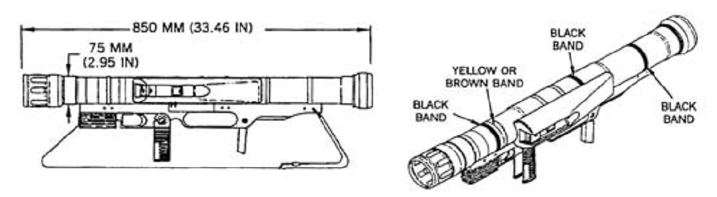 A line drawing of an Armbrust rocket launcher from the Iraq OIG group